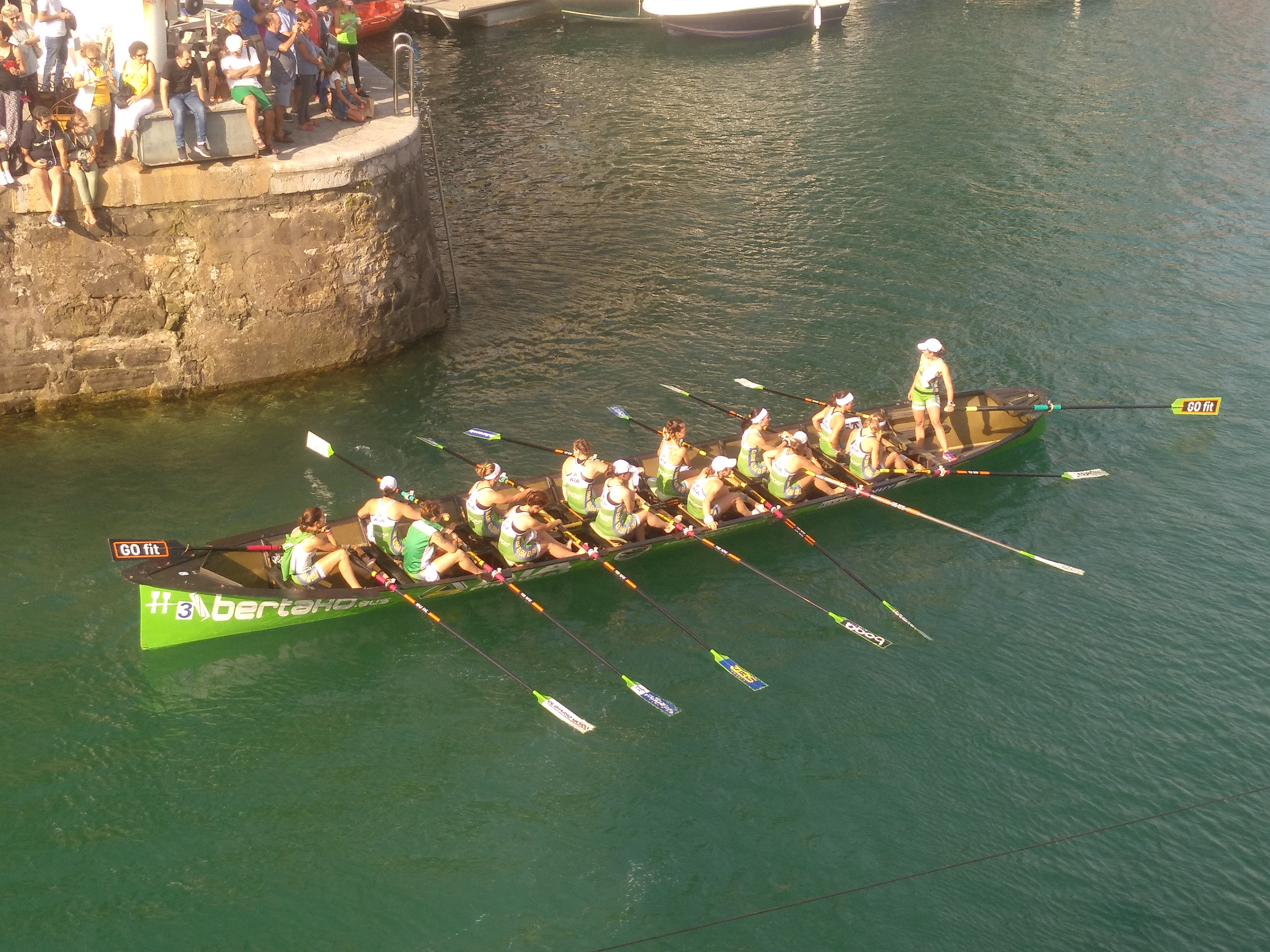 Hondarribia Arraun Elkartea, women, Flag of La Concha, 2018